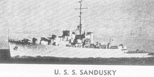 Found at the Coast Guard website